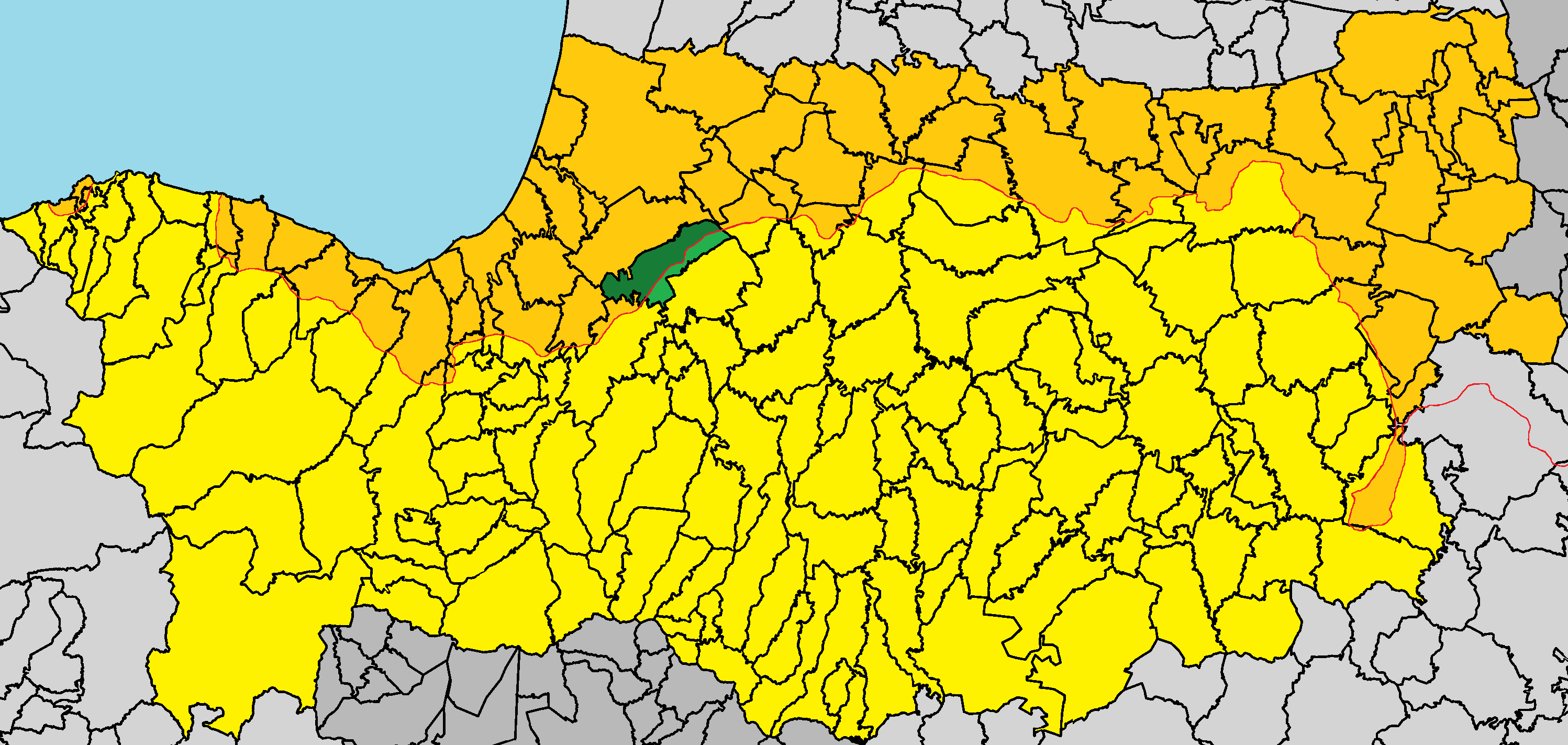 Pano Zodeia in Nicosia District (de jure).